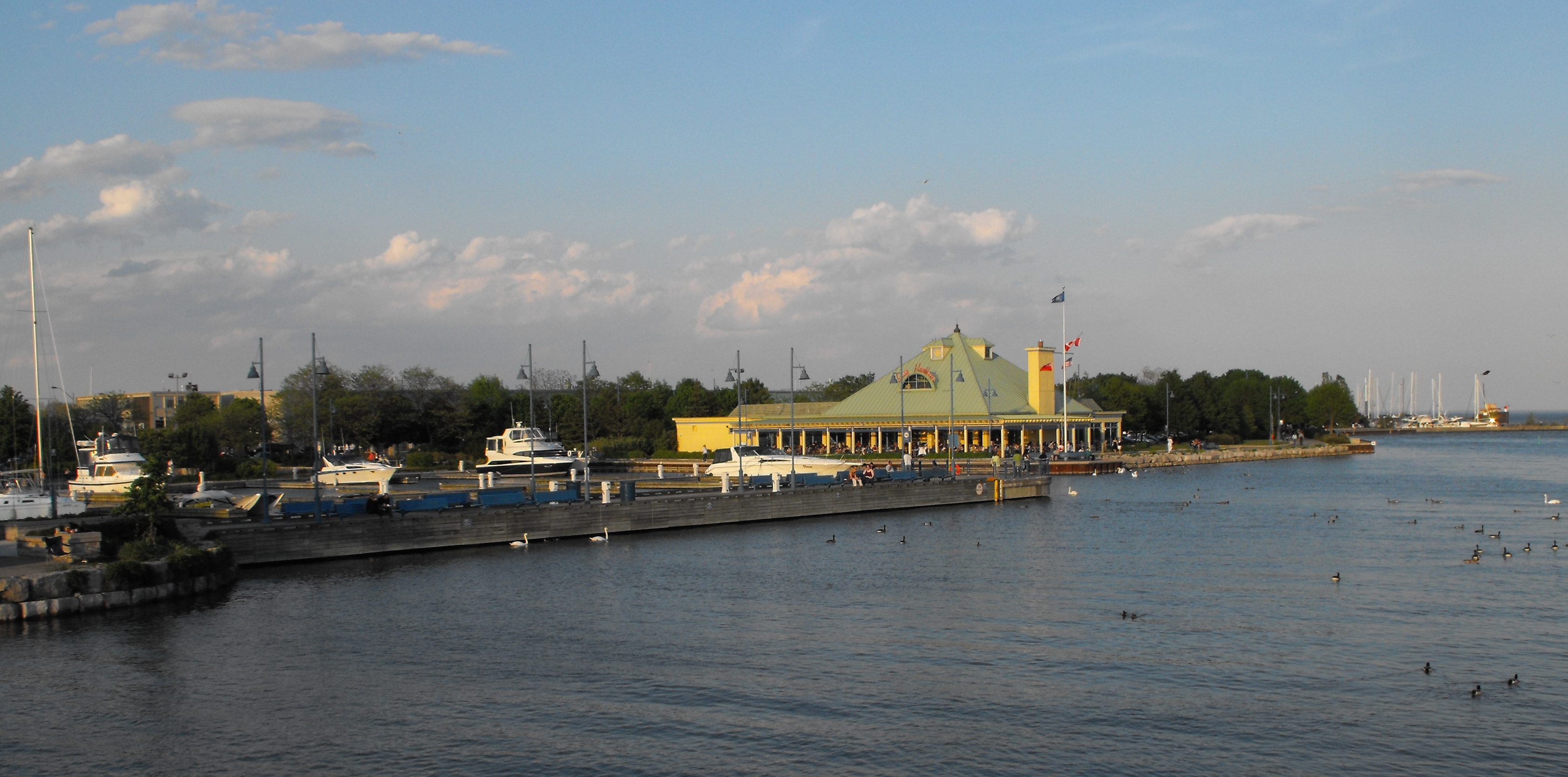 Port Credit, Ontario in Canada. Port Credit Harbour viewed from the pedestrian bridge crossing the Credit River south of the Lakeshore Road bridge.